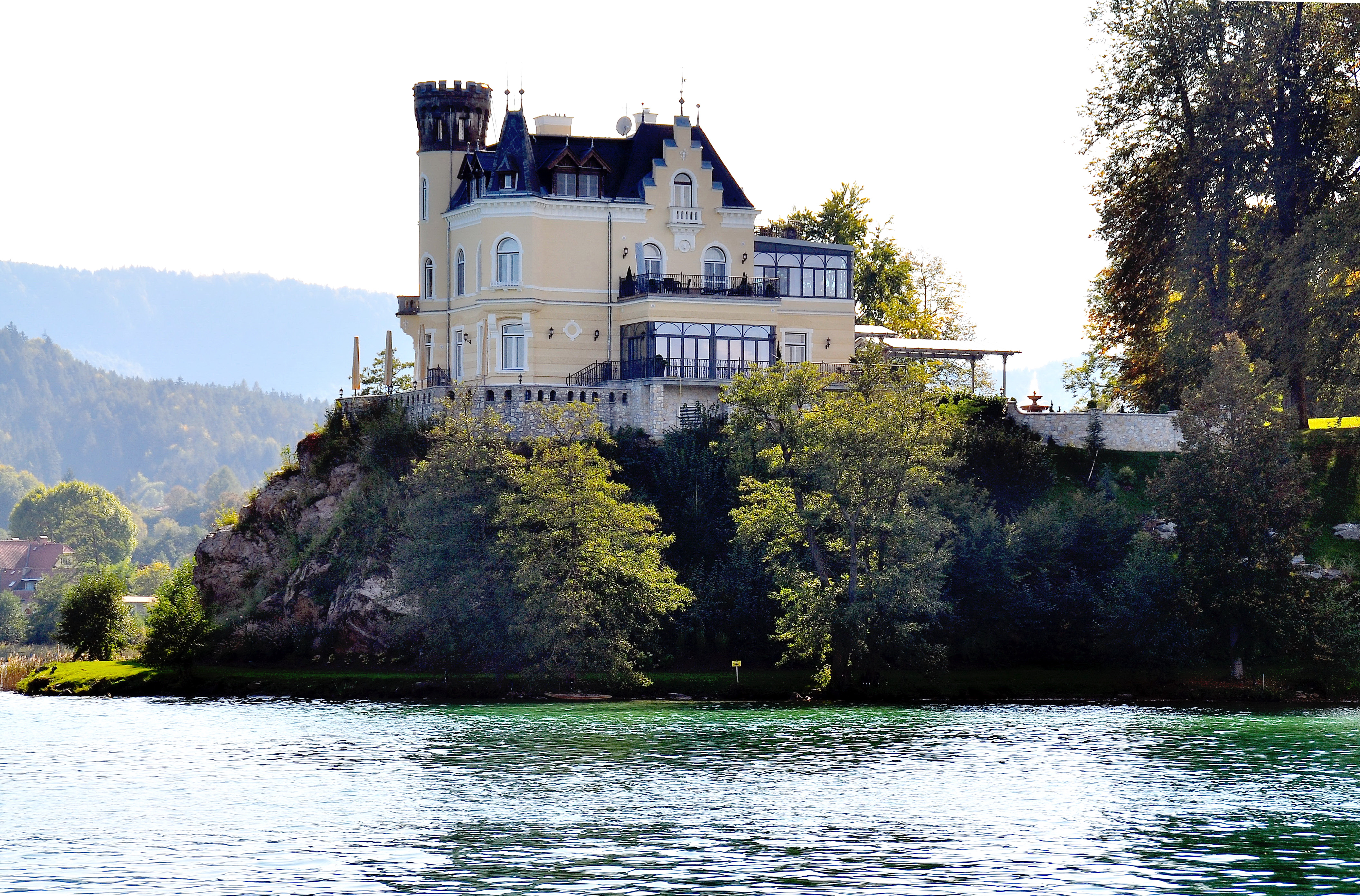 Castle "Little Miramar" (year of creation 1898, reconstruction in 2008) at Reifnitz on the Lake Woerth, community Maria Woerth, district Klagenfurt-Land, Carinthia, Austria